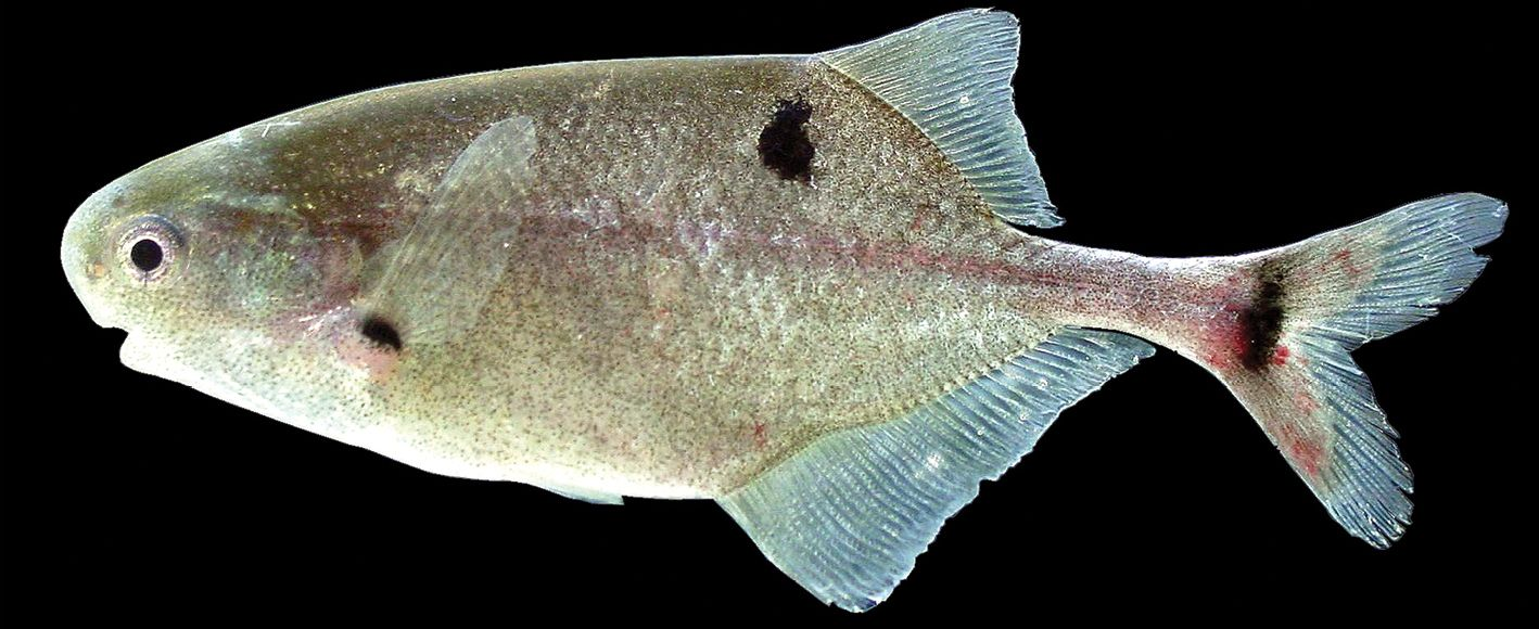 Petrocephalus arnegardi Lavoué and Sullivan, 2014. Paratype from Odzala-Kokua National Park, Congo River, Republic of the Congo